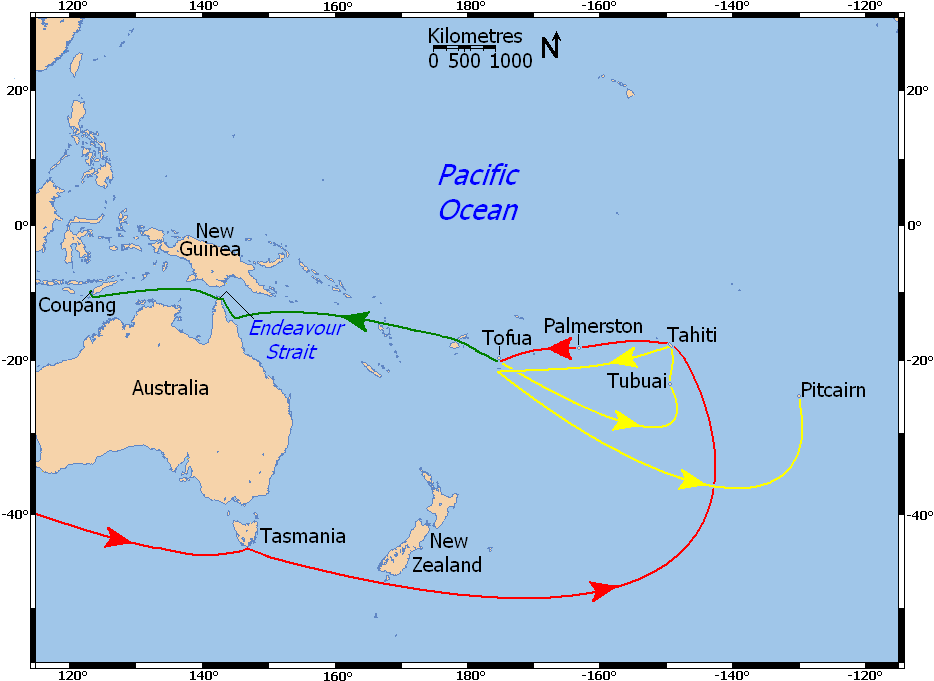 Labeled map of the voyages of HMS Bounty in the south Pacific: voyage prior to mutiny is red, voyage of Bounty after mutiny is yellow, voyage of Bligh and others in the longboat is green. Five labeled small islands enlarged for visibility (not to scale).